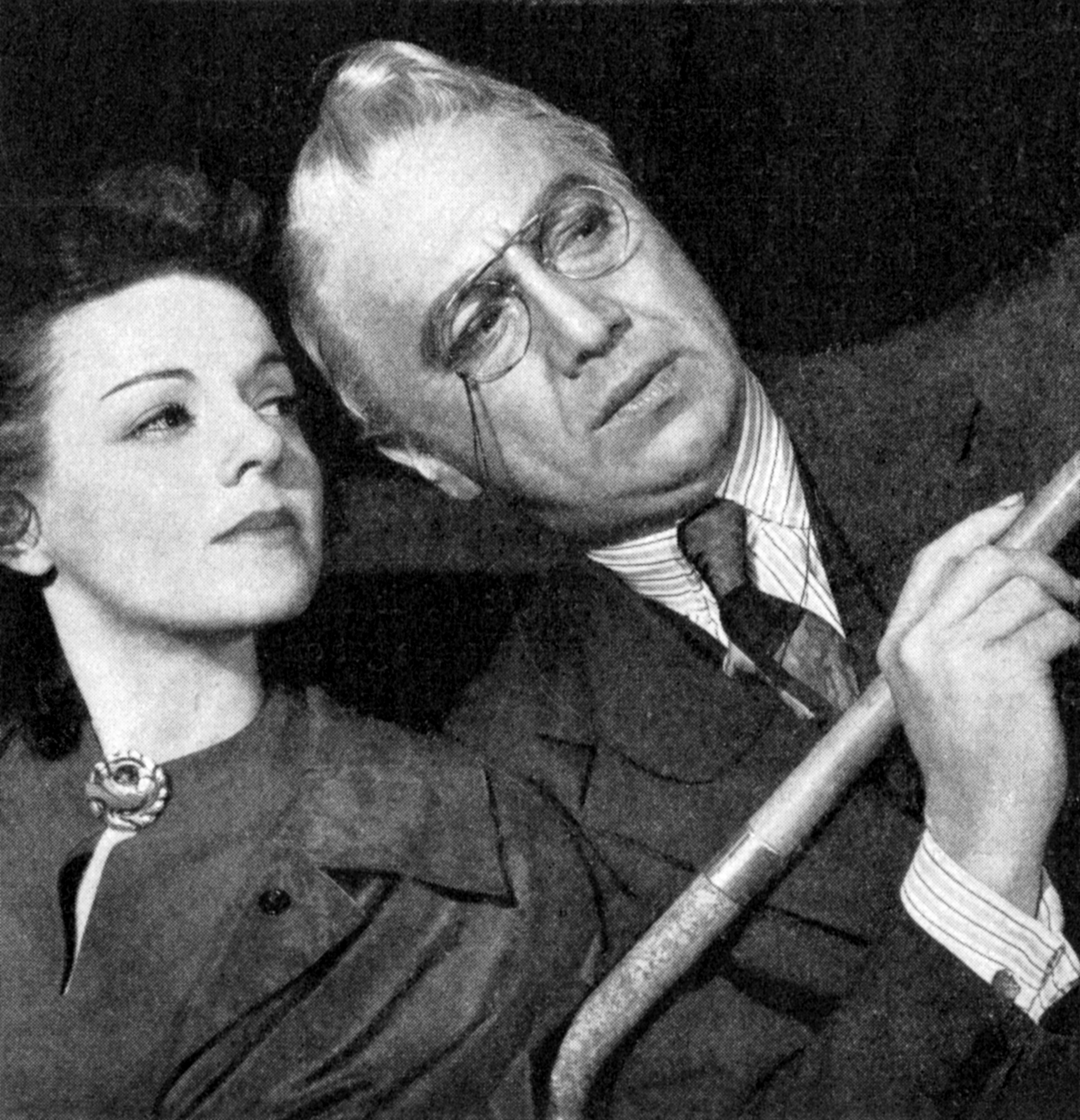 Promotional photograph for the Broadway production of Rocket to the Moon, featuring Eleanor Lynn and Luther Adler